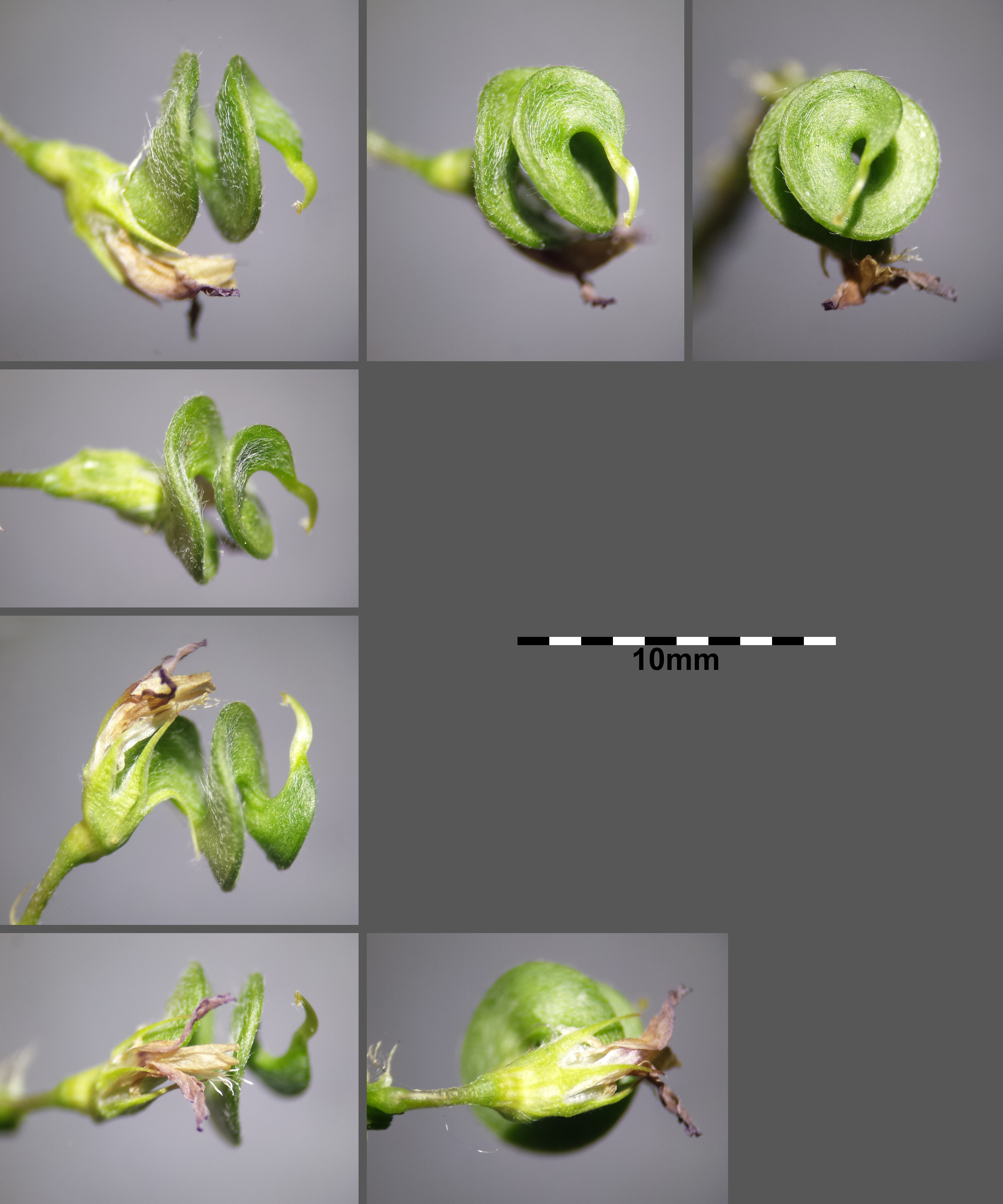 Fruit Taxonym: Medicago sativa s. lat. ss Fischer et al. EfÖLS 2008 ISBN 978-3-85474-187-9 Location: Neue Donau, Vienna-Floridsdorf - ca. 160 m a.s.l. Habitat: wayside